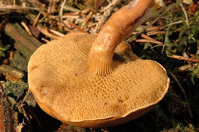 Suillus bovinus from Commanster, Belgium. The determination of the species shown in this picture has been verified.